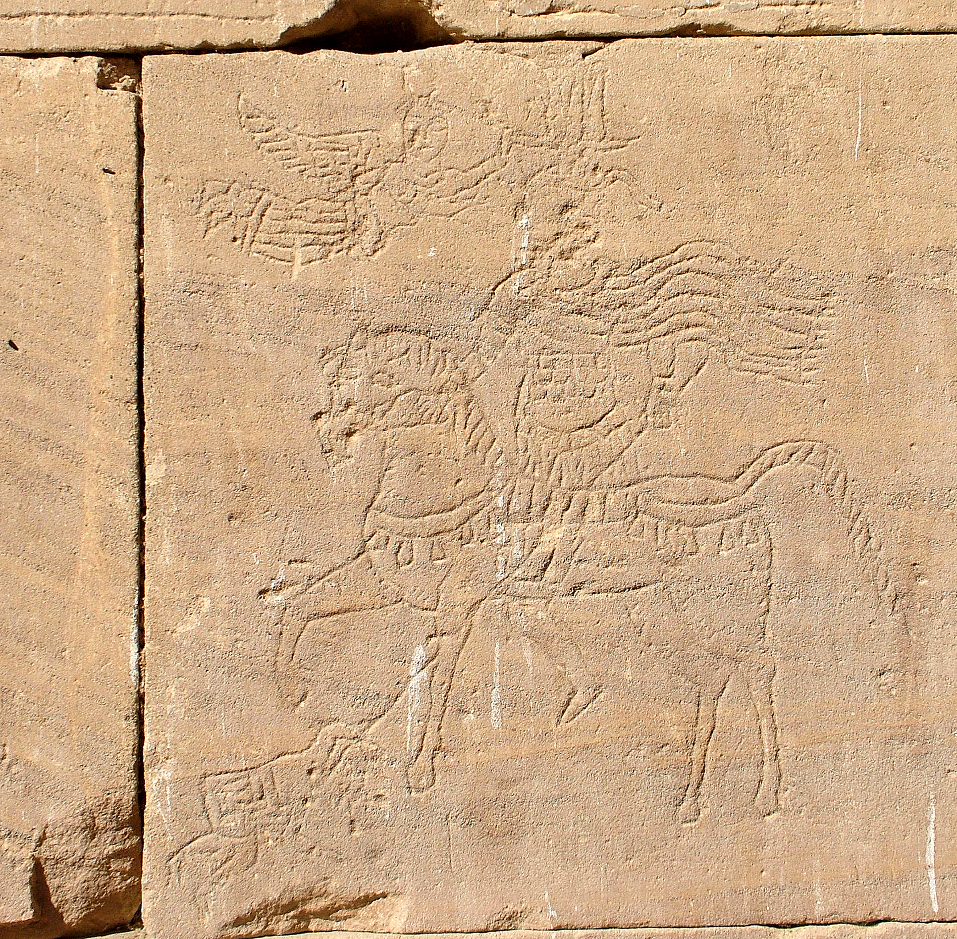 Silko king of Noba at tempe temple of Kalabsa (Egypt)